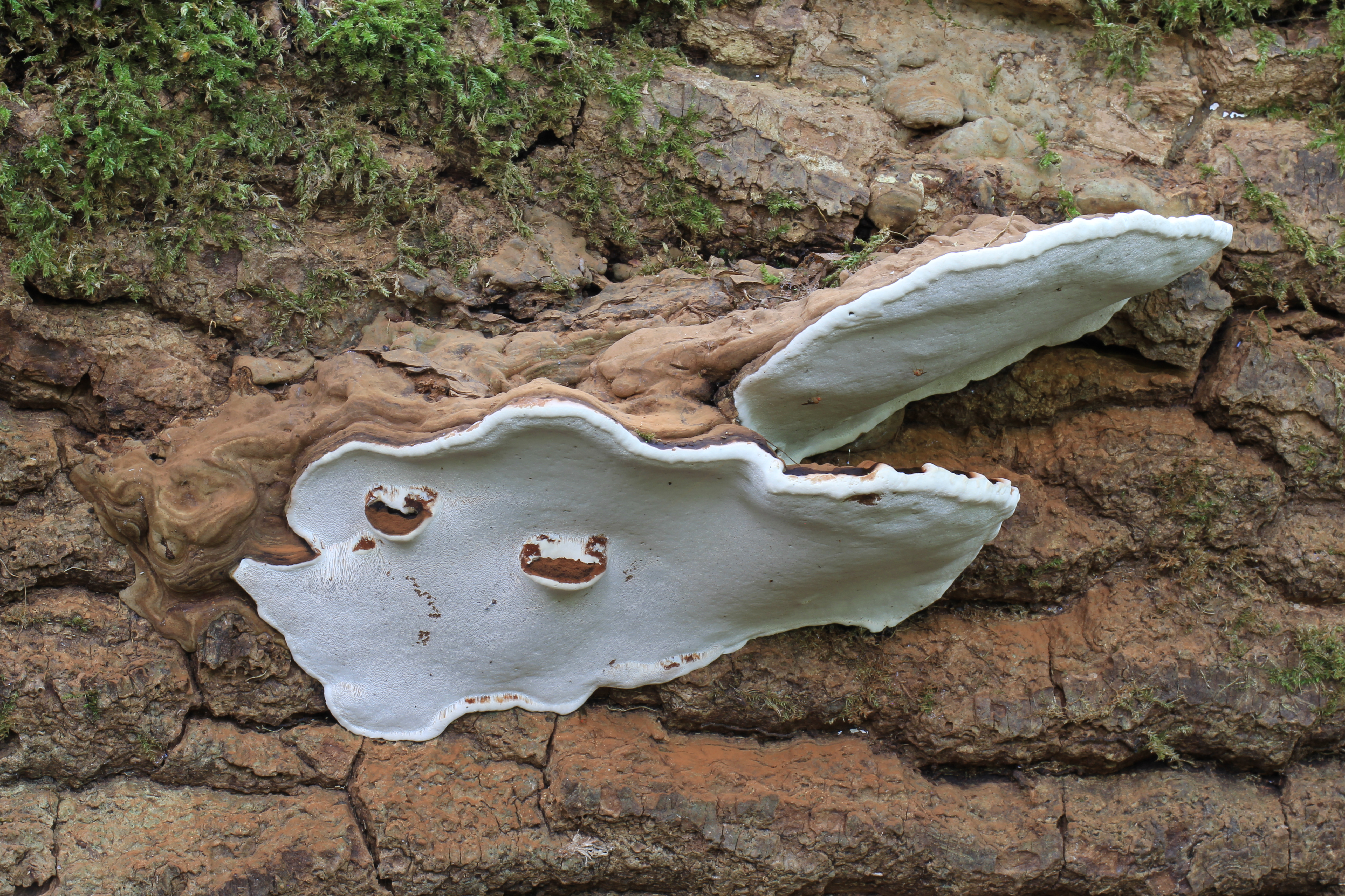 Ganoderma adspersum, Southern Bracket, growing on a fallen tree in Enfield, UK.